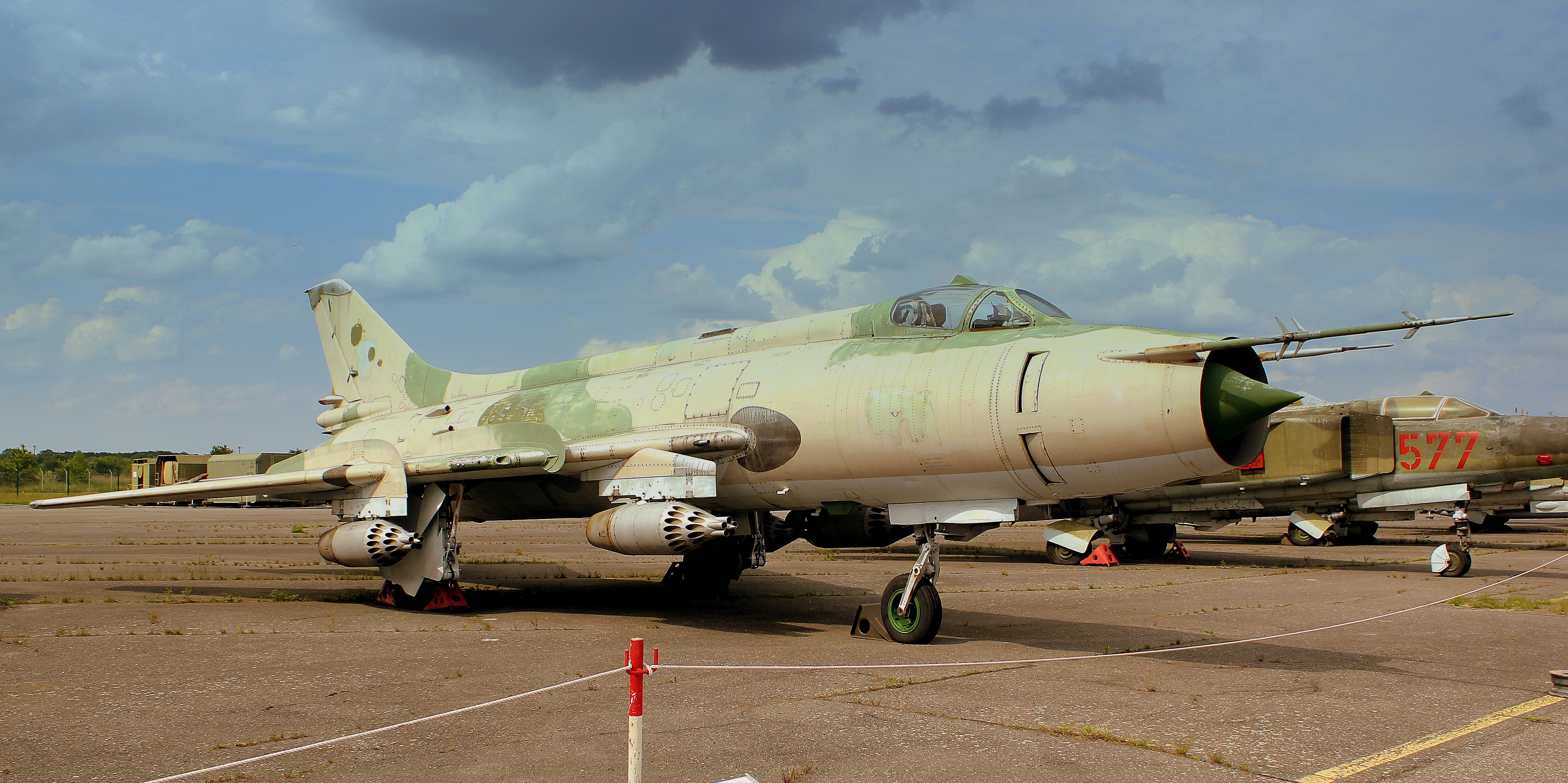 SUKHOI SU27 AT THE LUFTWAFFEN MUSEUM RAF GATOW BERLIN GERMANY JUUNE 2013